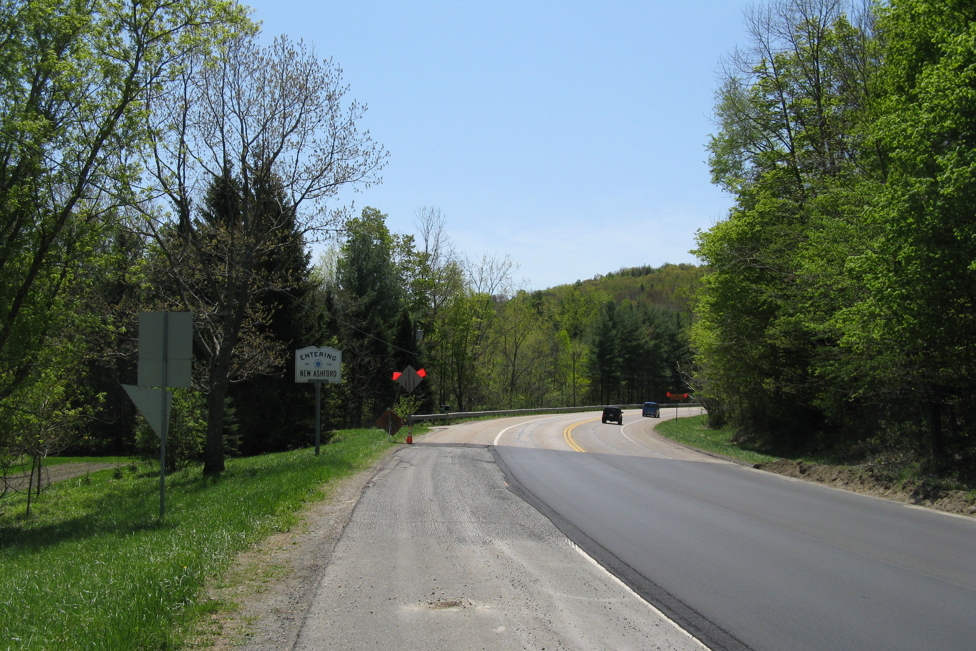 US Route 7 southbound entering New Ashford Massachusetts